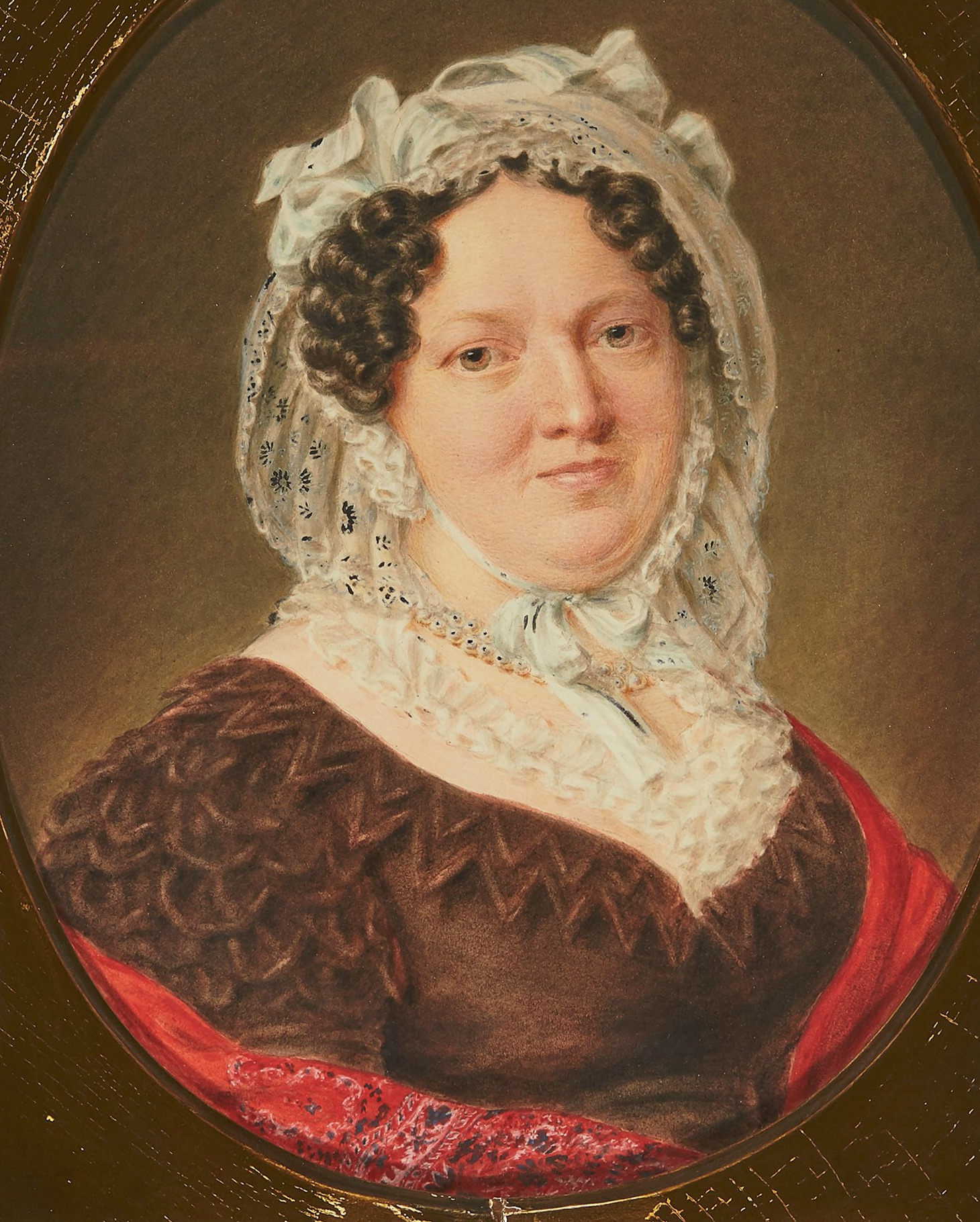 Anna Henriette Gossler (born 1771 in Hamburg, died 1836 in Hamburg), who went by the name of Henriette. Heiress from Hamburg, member of the Berenberg/Gossler banking dynasty, eldest child of Johann Hinrich Gossler and Elisabeth Berenberg (owners of Berenberg Bank), wife of banker Ludwig Erdwin Seyler (co-owner and head of Berenberg Bank), daughter-in-law of the theatre director Abel Seyler